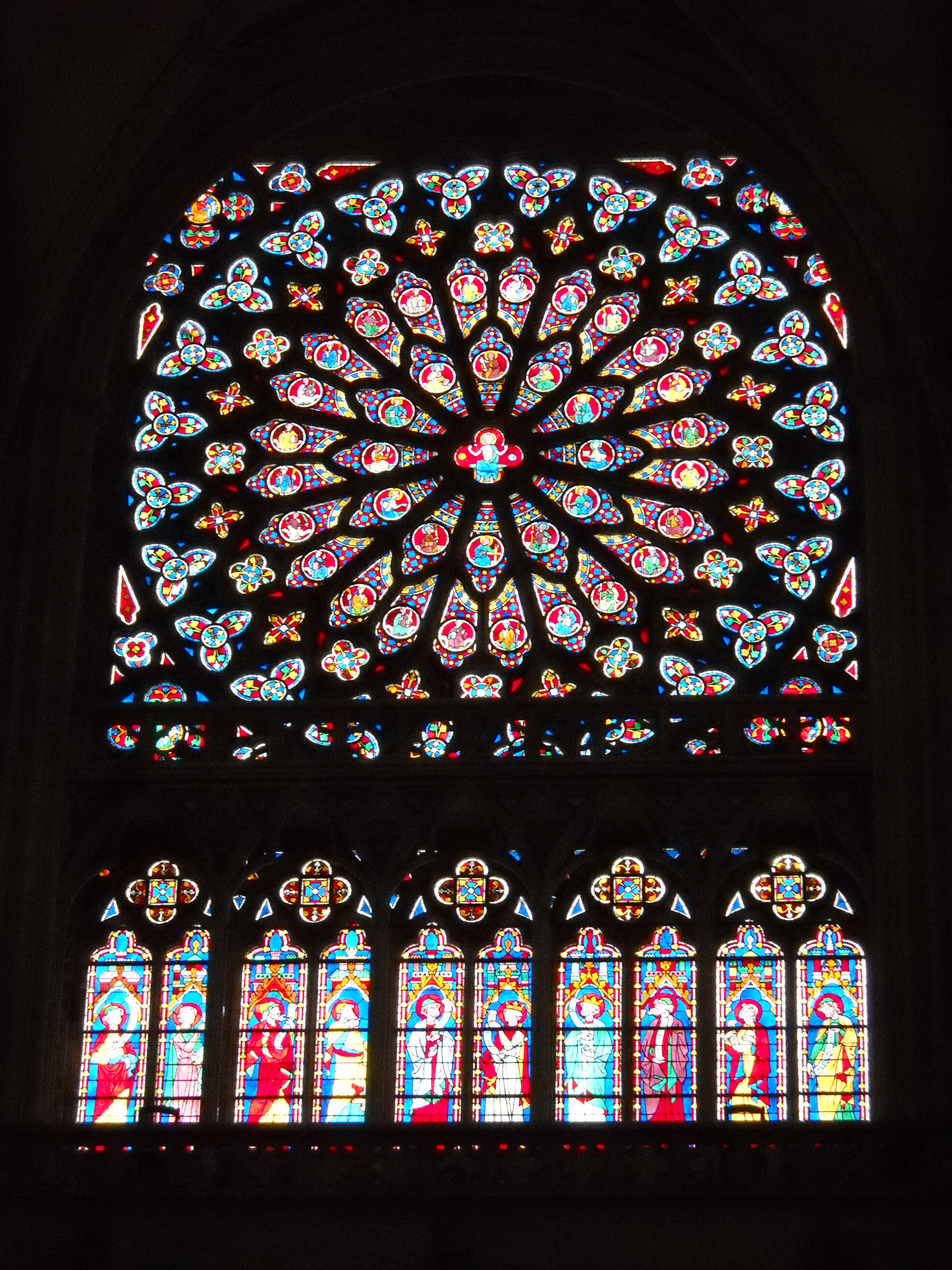 Stained glass on the south side of the cathedral of Sées, Orne, France.